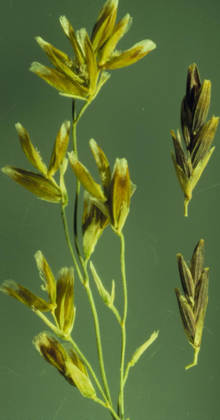 Spikelets typically well over 4 mm long and florest usually about 2 mm long distinguish Glyceria grandis (right hand specimens) from other Glyceria species. The spikelets of Catabrosa aquatica (left hand specimen) are shown for comparison. Only two florets per spikelet and three prominent veins per lemma distinguish Catabrosa from Glyceria and Melica.